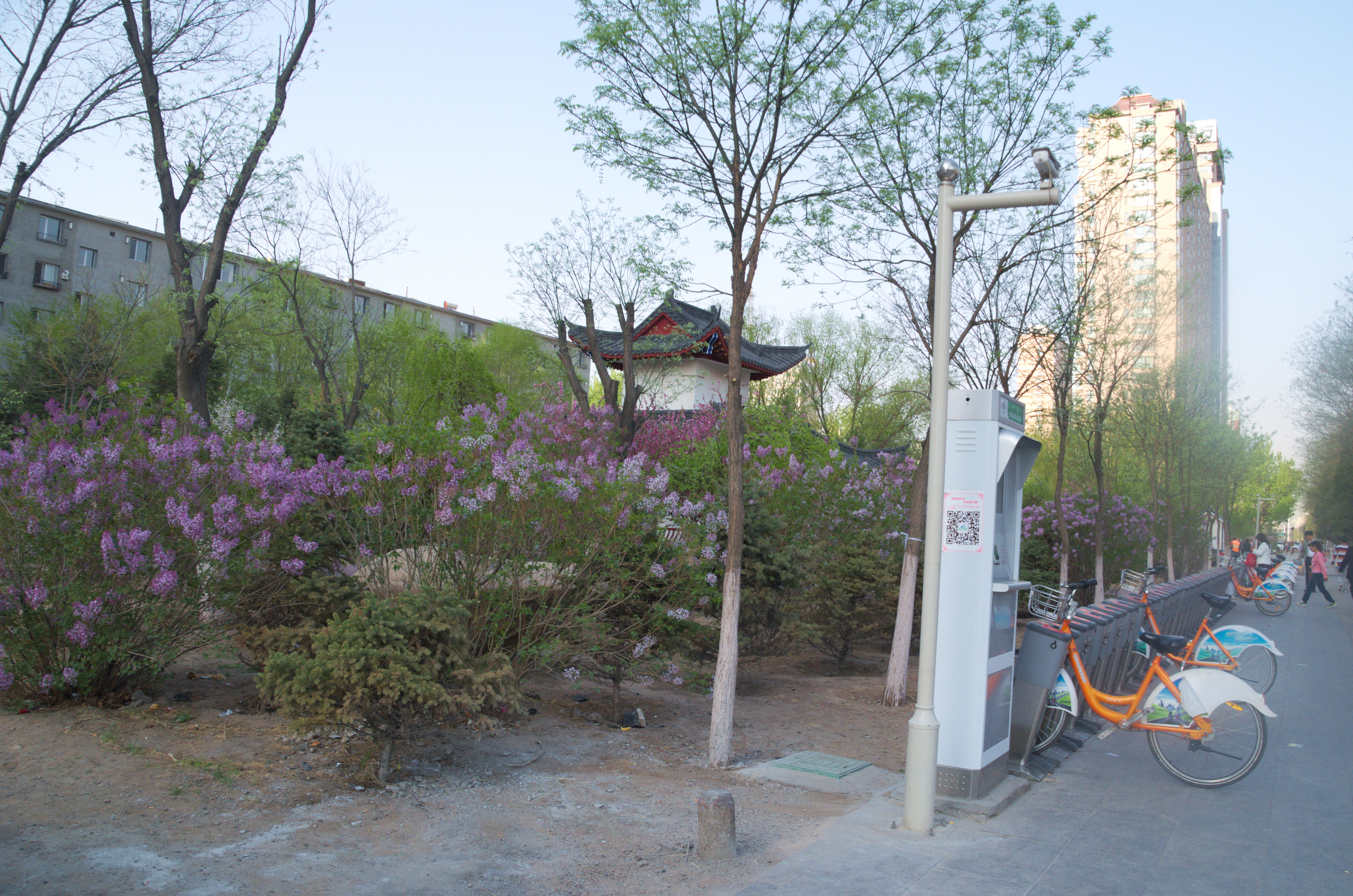 Hohhot green and flowered parc, and city bike rental station.